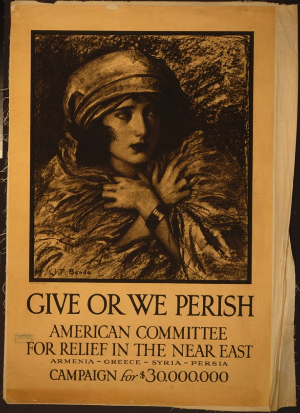 Give or we perish American Committee for Relief in the Near East--Armenia-Greece-Syria-Persia--Campaign for $30,000,000